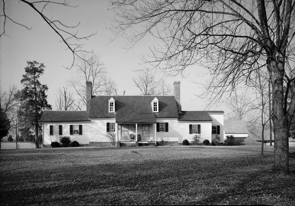 Ionia (Main House), Near Route 640, Trevilians vicinity (Louisa County, Virginia) cropped This file comes from the Historic American Buildings Survey (HABS), Historic American Engineering Record (HAER) or Historic American Landscapes Survey (HALS). These are programs of the National Park Service established for the purpose of documenting historic places. Records consist of measured drawings, archival photographs, and written reports. When reusing please credit: Library of Congress, Prints & Photographs Division, VA,55-TREV.V,7-2 This tag does not indicate the copyright status of the attached work. A normal copyright tag is still required. See Commons:Licensing. This work is in the public domain in the United States because it is a work prepared by an officer or employee of the United States Government as part of that person’s official duties under the terms of Title 17, Chapter 1, Section 105 of the US Code. Note: This only applies to original works of the Federal Government and not to the work of any individual U.S. state, territory, commonwealth, county, municipality, or any other subdivision. This template also does not apply to postage stamp designs published by the United States Postal Service since 1978. (See § 313.6(C)(1) of Compendium of U.S. Copyright Office Practices). It also does not apply to certain US coins; see The US Mint Terms of Use. This file has been identified as being free of known restrictions under copyright law, including all related and neighboring rights. Object location38° 00′ 41″ N, 78° 08′ 46″ W